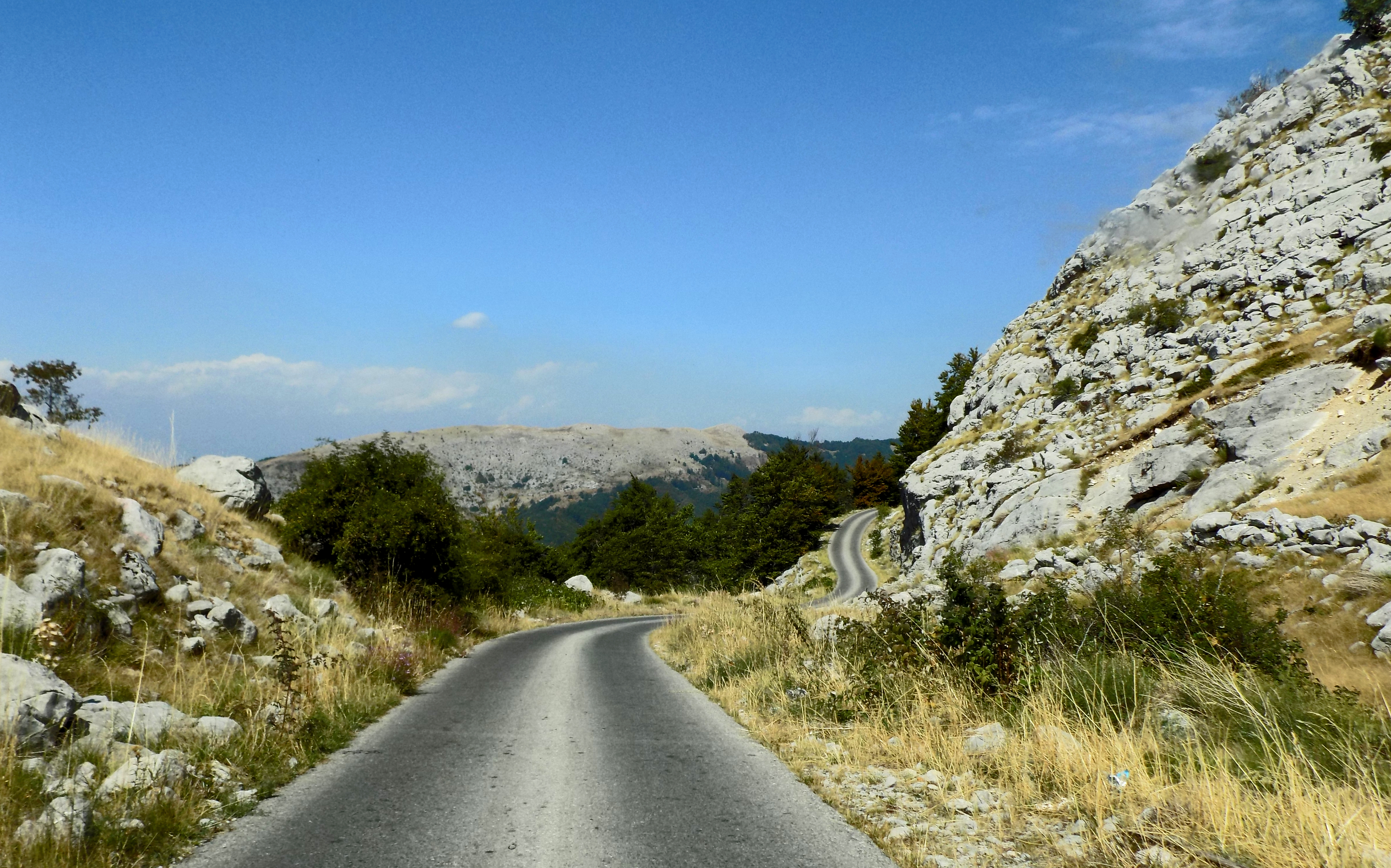 Bukumirsko lake, Montenegro. A road to the lake.